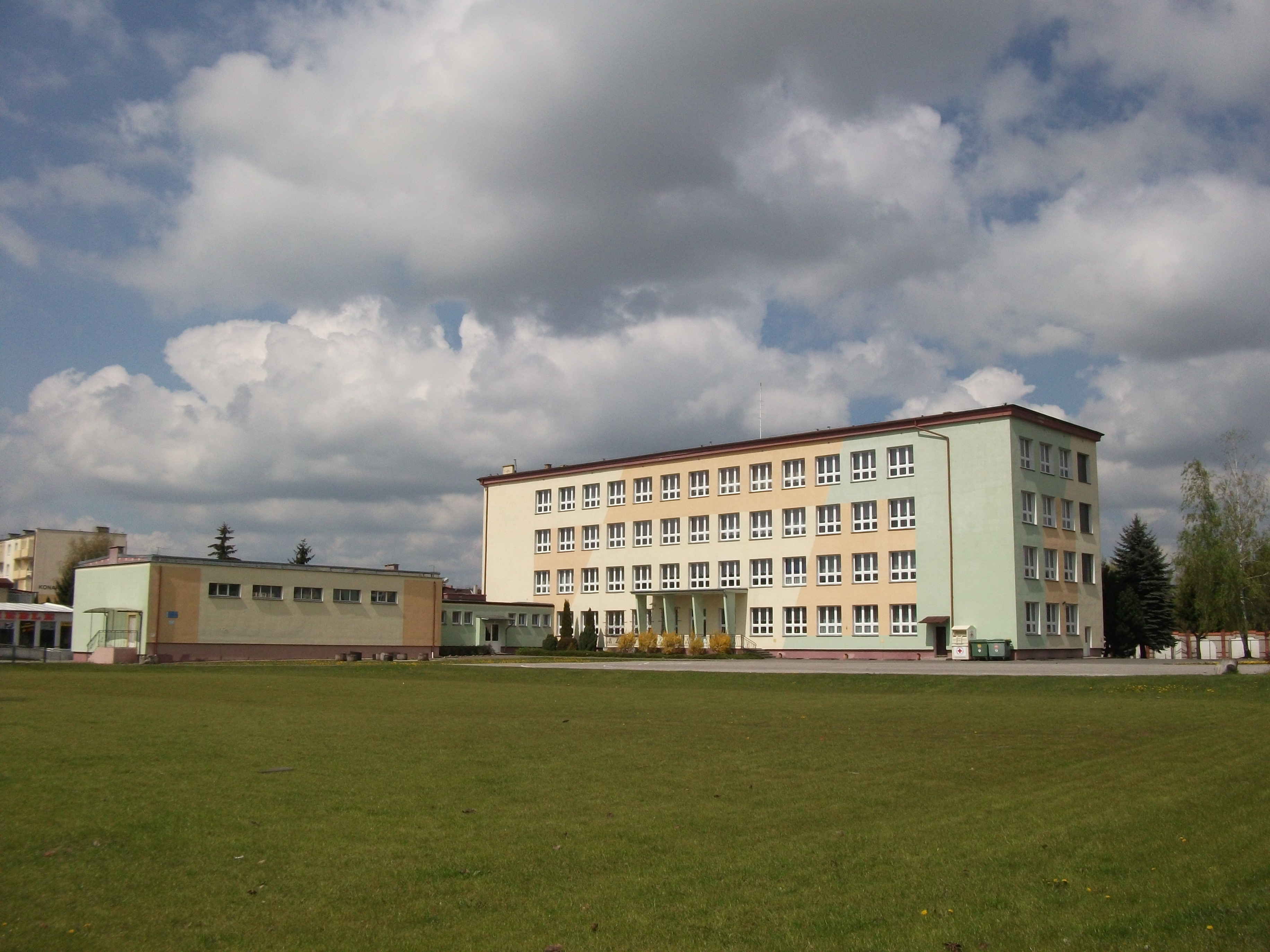 High Schools in Łasin, Poland